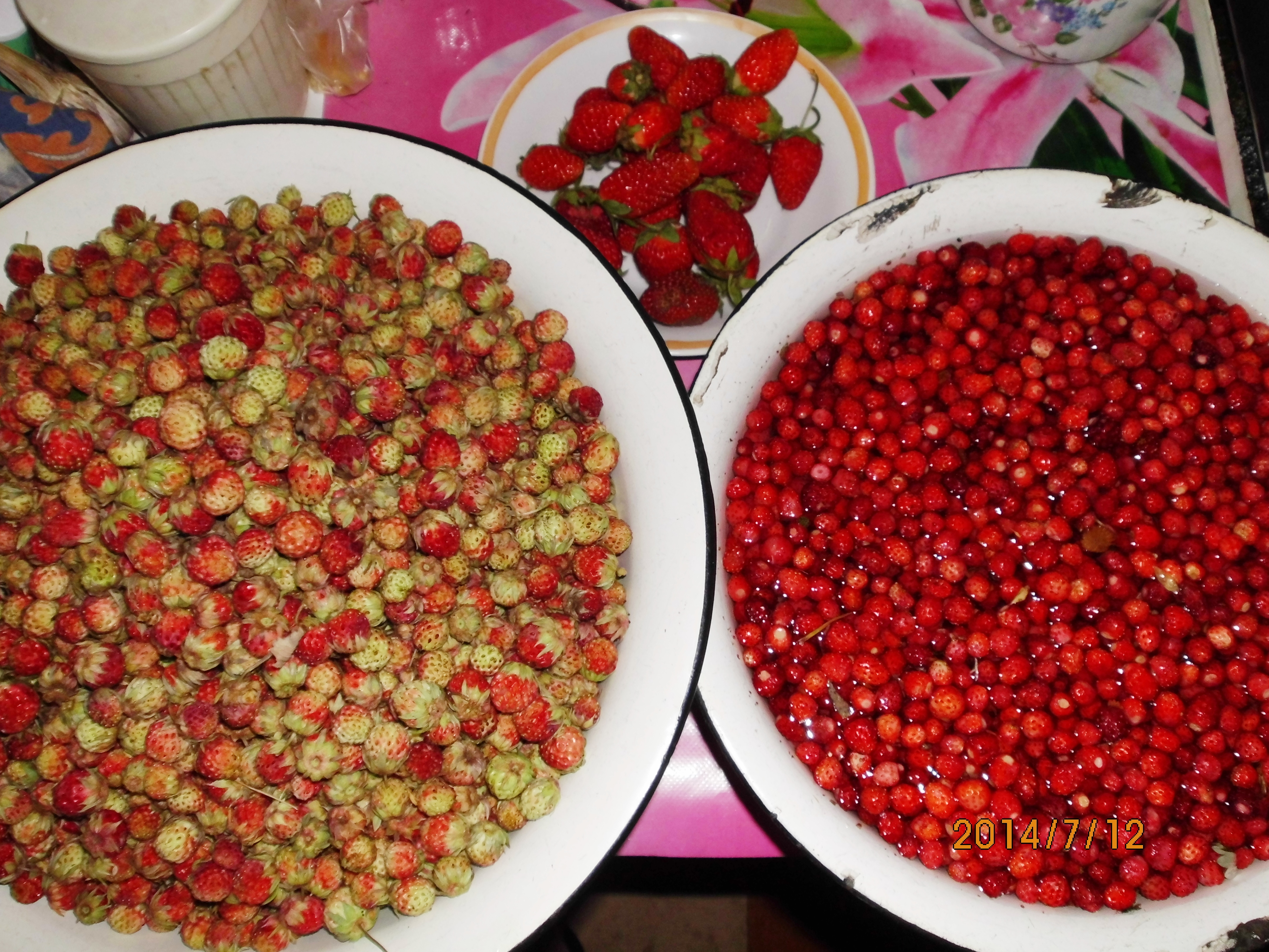 To the left is a klubnika (Fragaria viridis), on the right is a wild strawberry (Fragaria vesca), on the top in the middle is a strawberry (Fragaria ananassa).